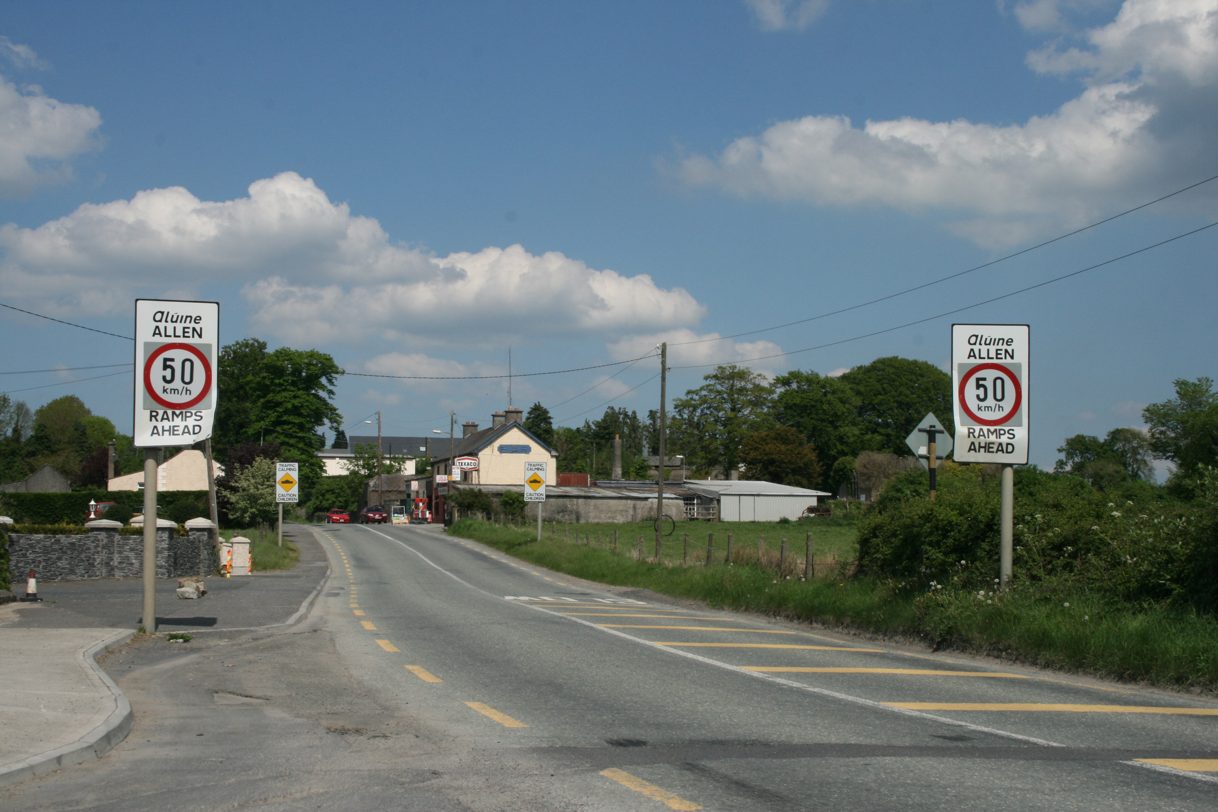 The village of Allen, County Kildare, Ireland in May 2010.